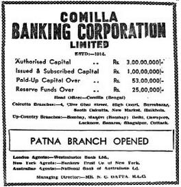 Scanned image of an advertisement of Comilla Banking Corporation that appeared in the Hindusthan Standard dated 16th August 1945.